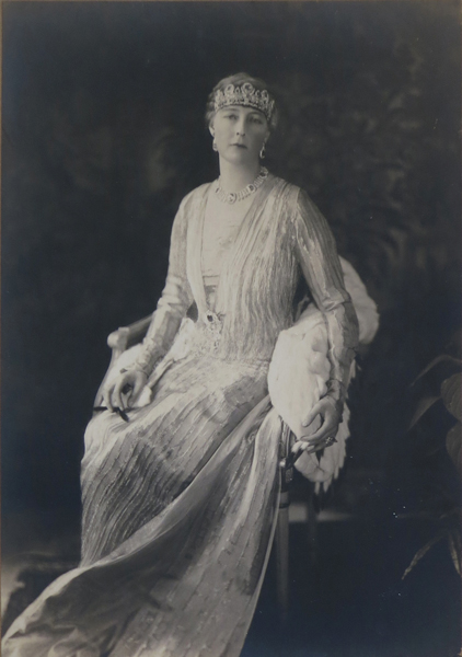 Princess Isabelle of Orléans, Duchess of Guise